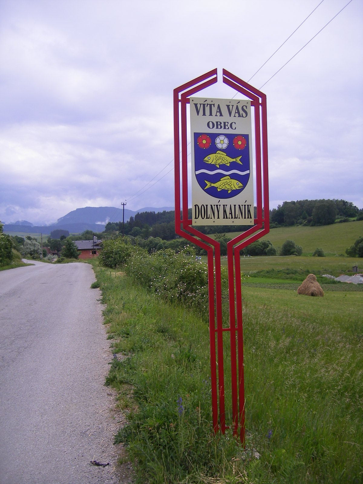 Dolný Kalník - welcome sign with coat of arms